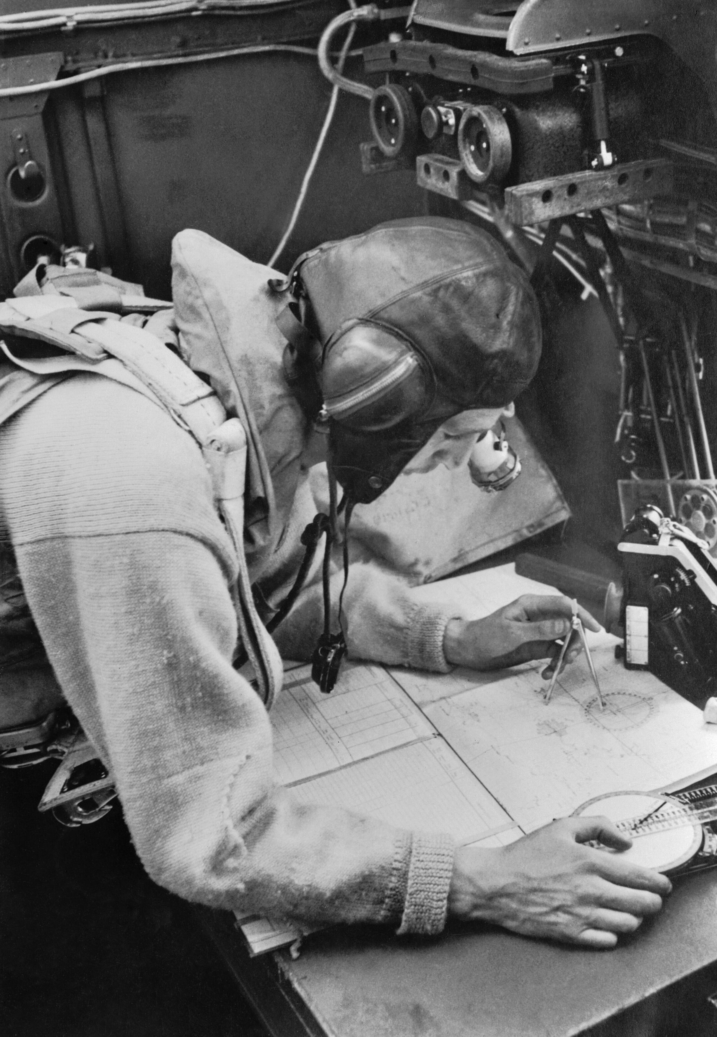 A Cecil Beaton photograph of the navigator working at his chart table in an RAF Stirling bomber, 1941. 1940s vintage exhibition print of Cecil Beaton photograph D 4738. A Royal Air Force navigator working at his chart table in a Vickers Wellington bomber.